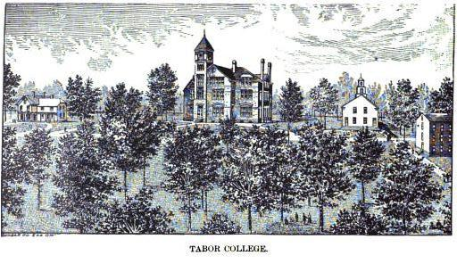 Tabor College in Tabor, Iowa (now defunct). From Circular[s] of information, Volume 20, Issues 5-8, United States Office of Education: Gov't Printing Office, 1893, p. 144 (a)